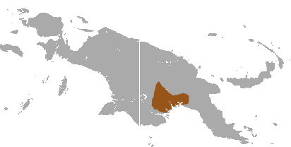 Lowlands Tree Kangaroo (Dendrolagus spadix) range